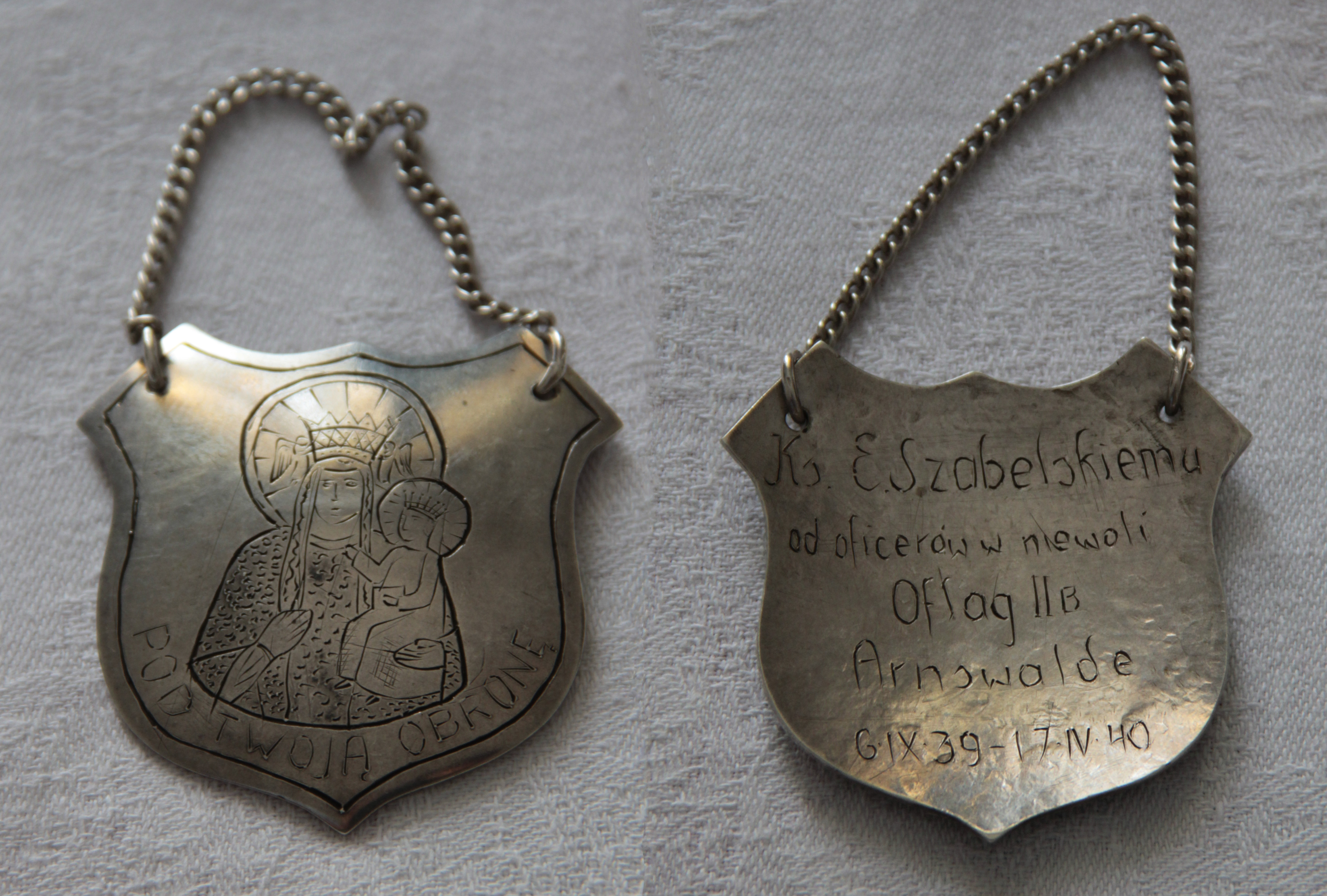 Gorget of rev. Edward Szabelski made by polish oficers kept prisoners in German POW Camp Oflag IIB before his deportation to concentration camp Buchenwald